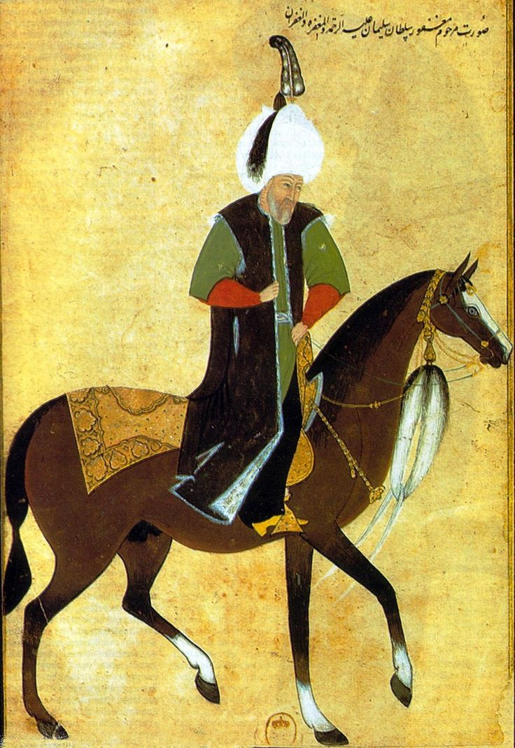 Sultan suleyman khan I